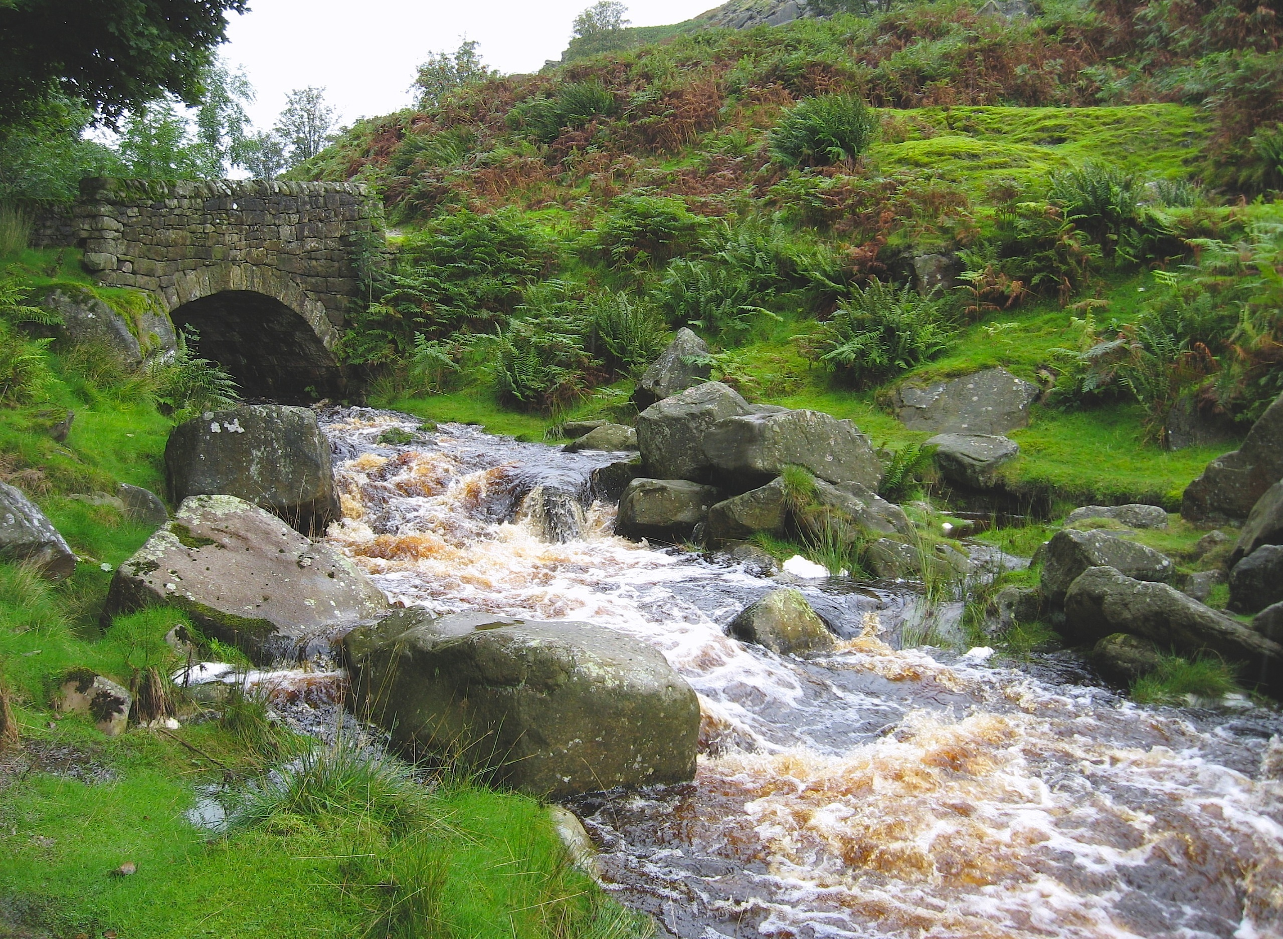 Miners' Bridge, Hole Bottom, Hebden, Yorkshire